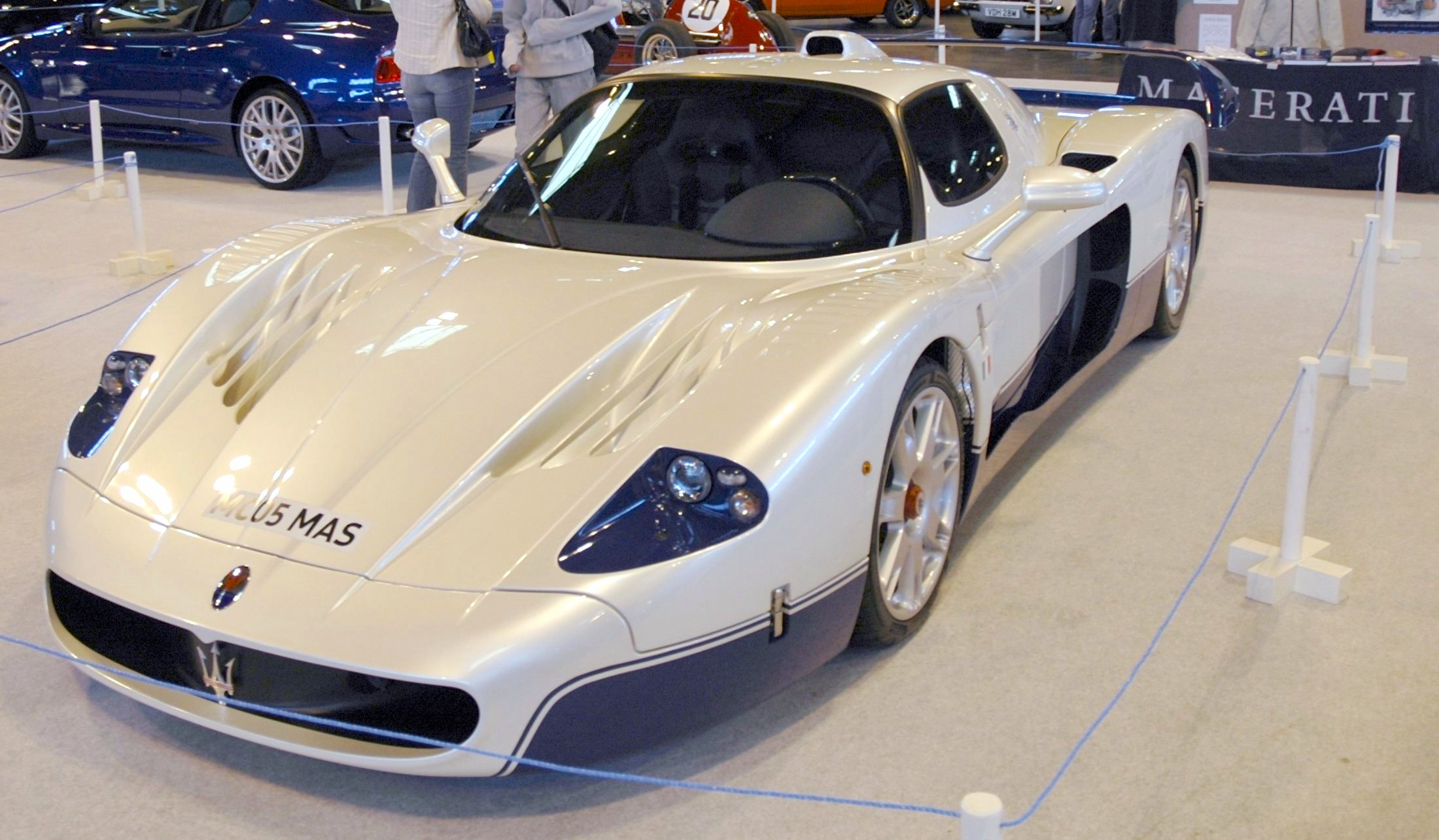 A Maserati MC12. Picture taken at the Classic Car Show 2005 held at the NEC Birmingham, England, 5th November 2005.